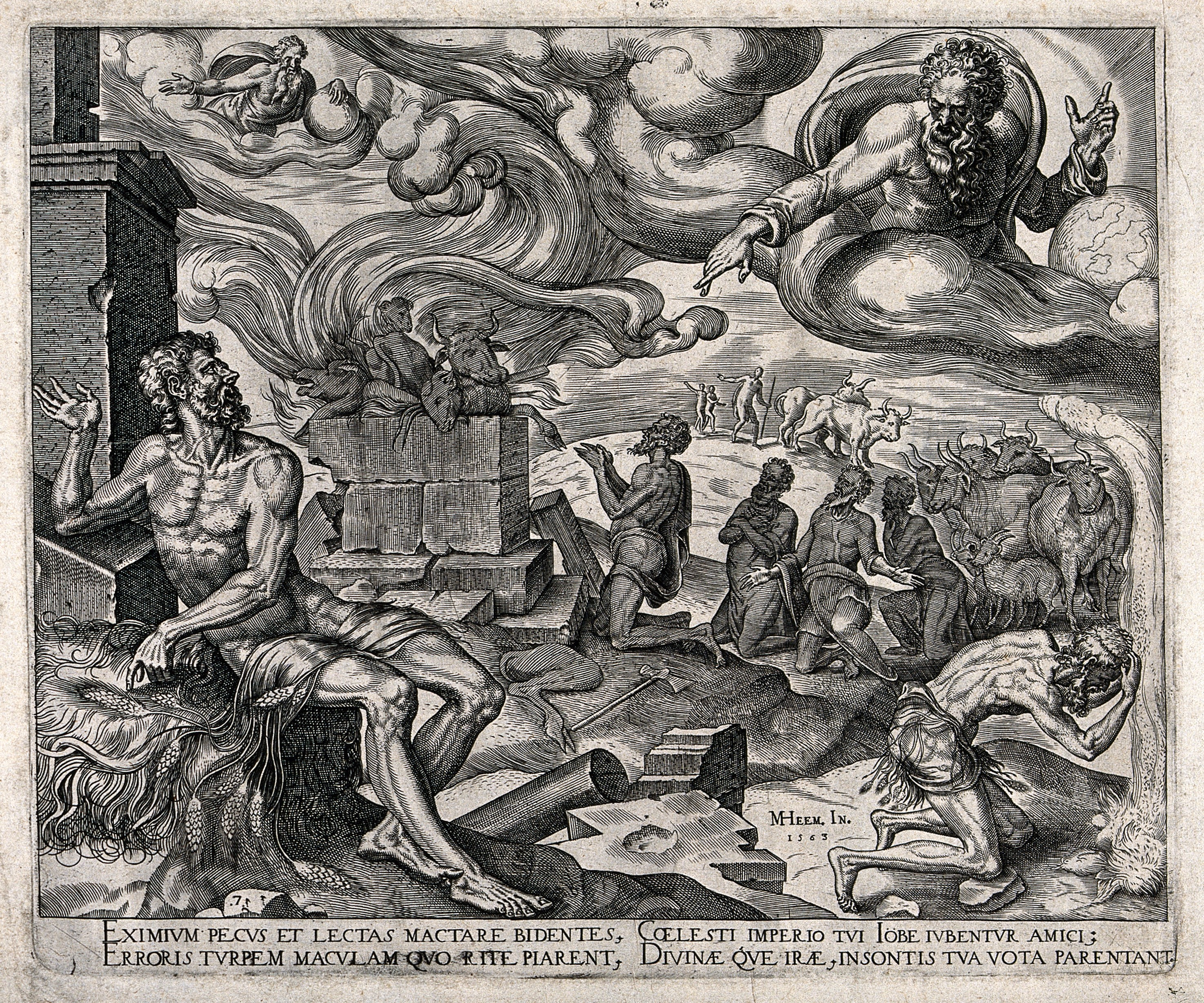 The torments of Job under a swirling sky dominated by God. Engraving by M. van Heemskerck, 1563. Iconographic Collections Keywords: Job; Marten Jacobsz van Veen Heemskerck